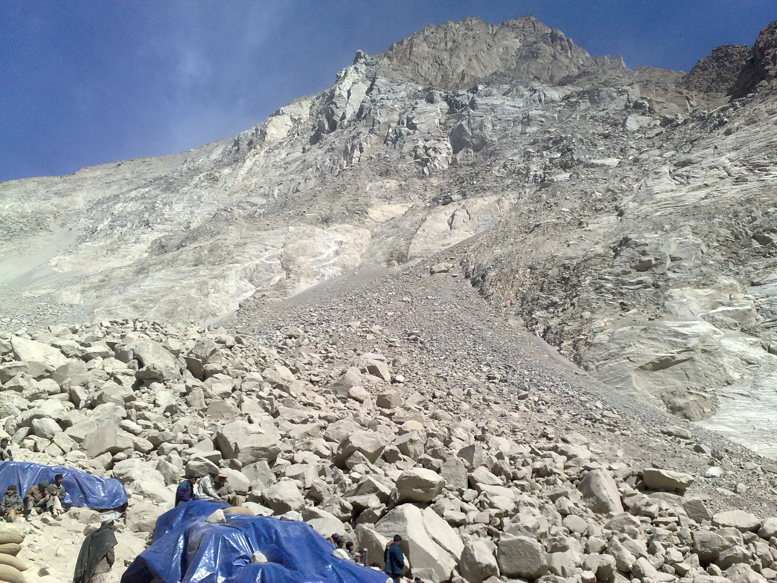 The worst happened on January 4 when the already cracked mountain located above a beautiful, tiny, hamlet called Attabad slid off and buried most of the village, along with the people who had chosen to live in it, its cattle, houses, fields and orchards. The land mass that slid off has completely blocked the Hunza River gorge. More than two kilometers of the gorge through which the river once flowed is now filled with sand and rocks over, turning the river into an expanding lake, posing great risk to the low-lying villages of Gojal Valley Hunza, Gilgit-Baltistan